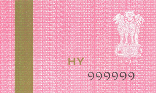 A ballot paper for the Indian general election 1951/52. "Hy" stands for Hyderabad state.